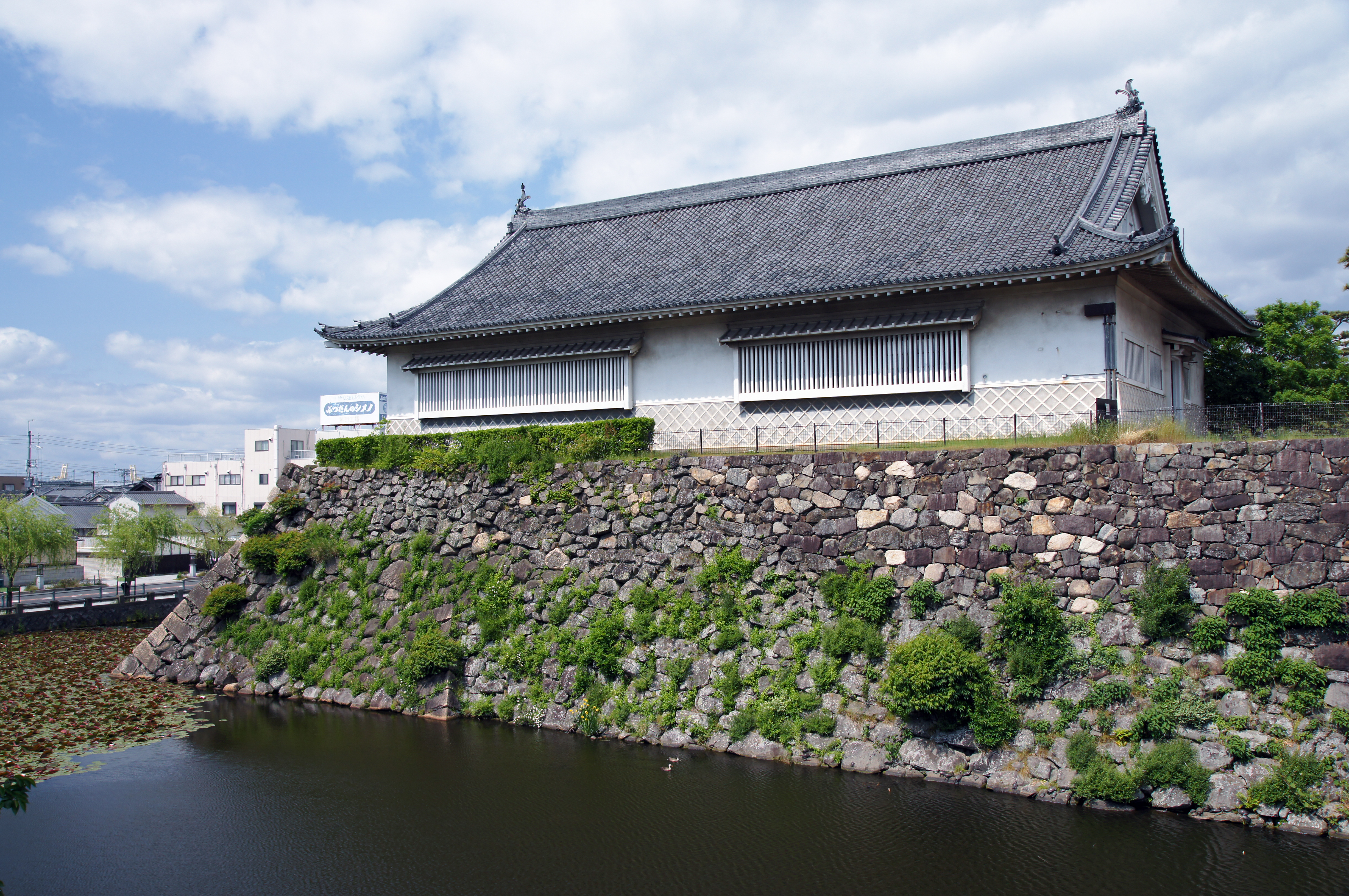 Kishiwada_Castle in Kishiwada, Osaka prefecture, Japan